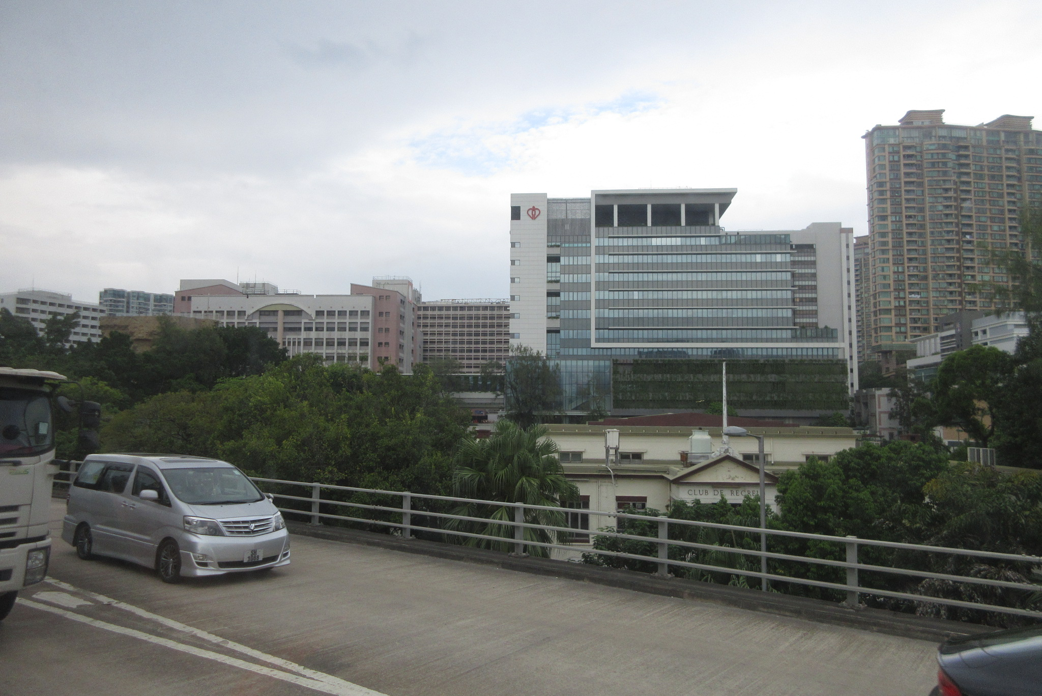 HK Yau Tsim Mong 加士居道 Gascoigne Road in October 2017